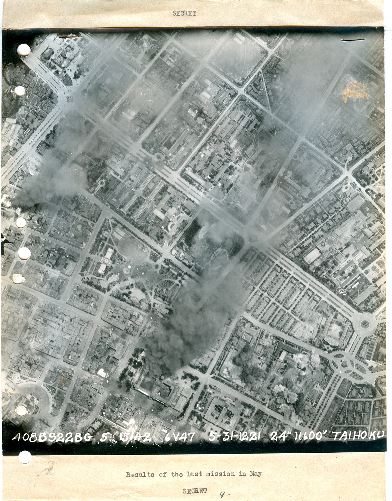 Raid on Taihoku (Current Taipei), Taiwan, Japan